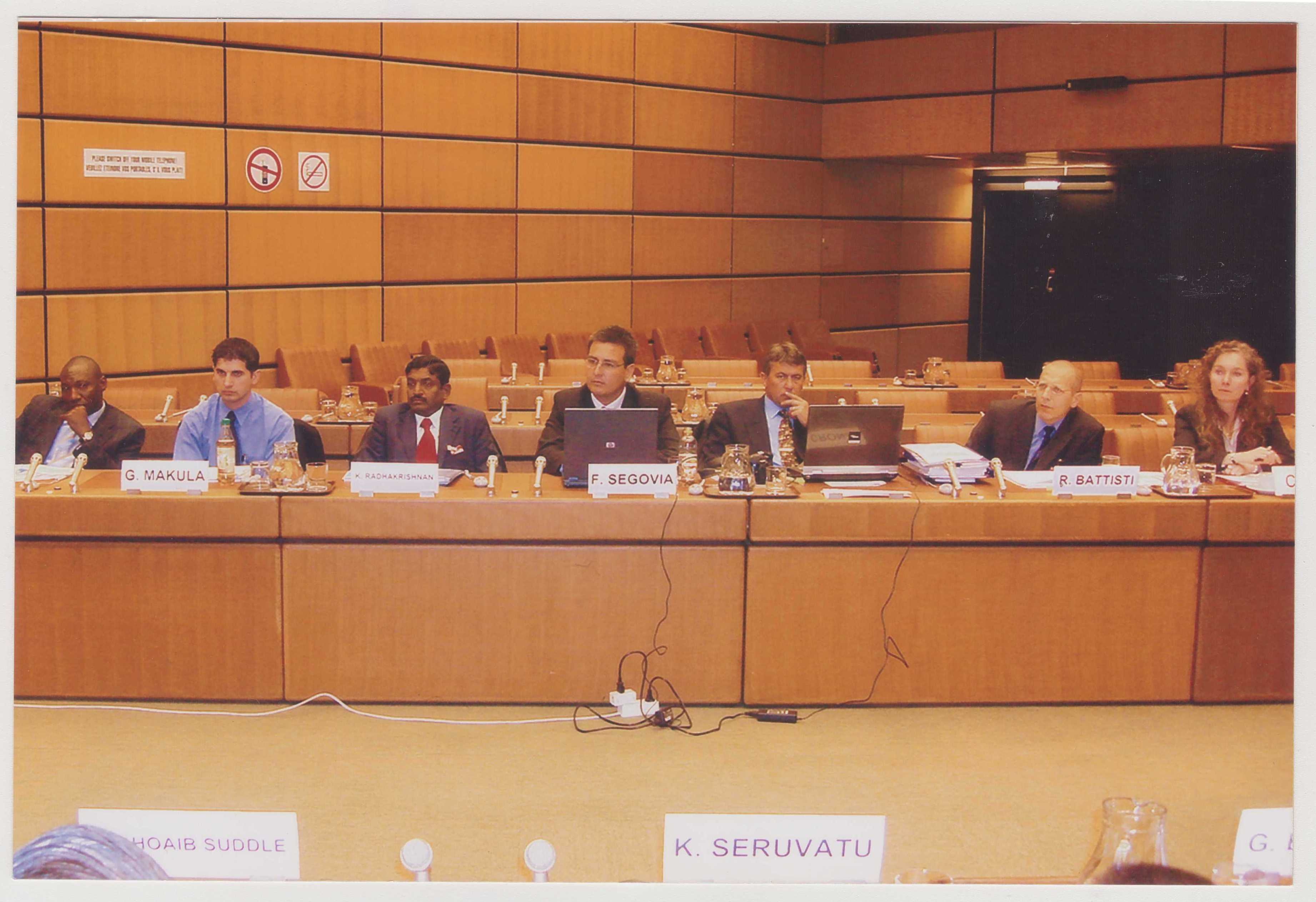 K.Radhakrishnan during the Vienna Conference.